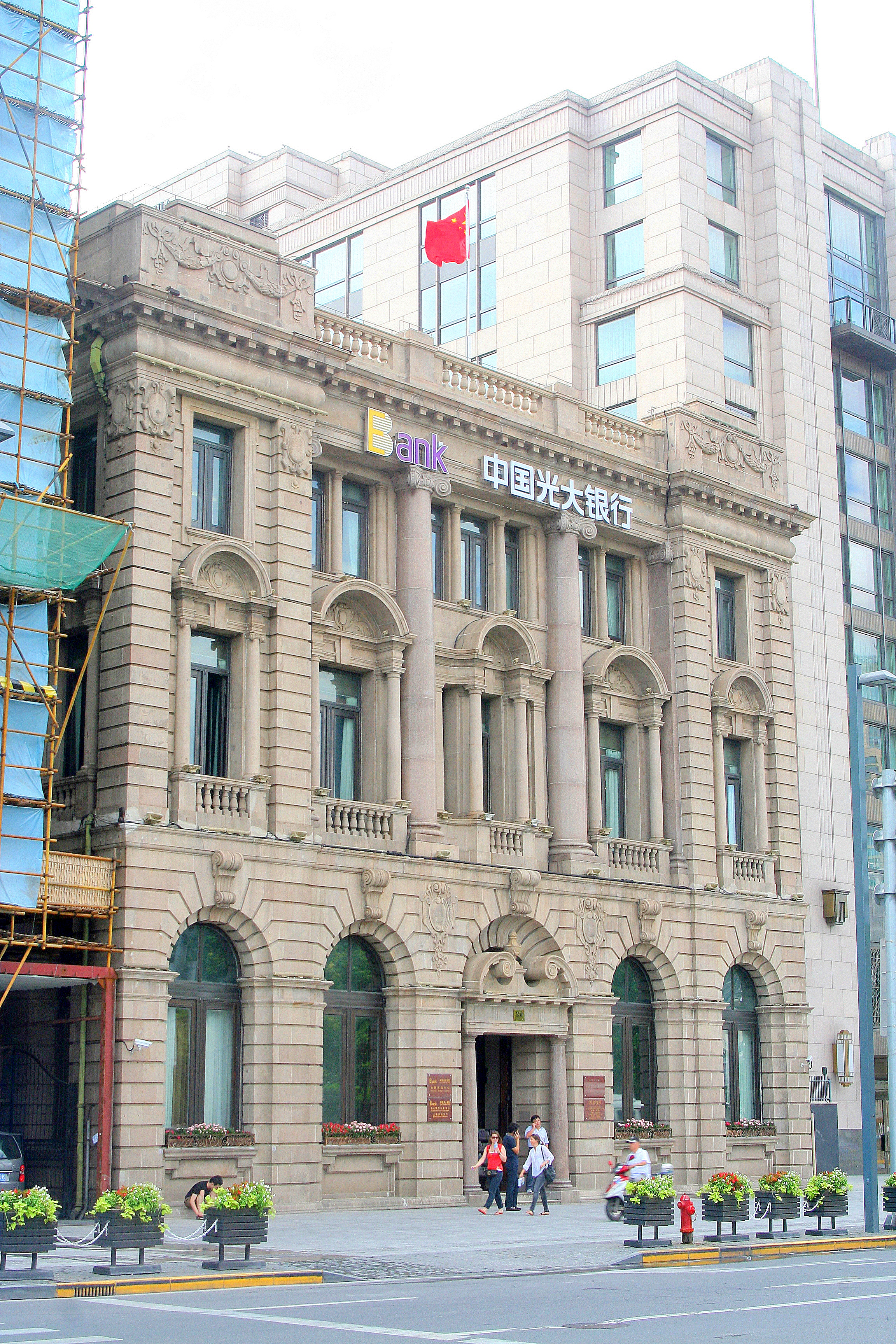 This is a picture of the old Banque de L'Indo-Chine building in the Bund, Shanghai. It was built in 1910. After the Communists took control of Shanghai in 1949, the building became a branch of the China Everbright Bank.